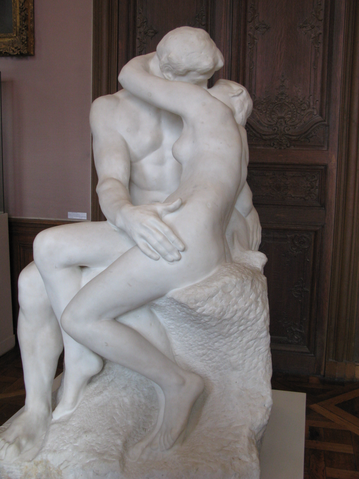 The Kiss, Auguste Rodin's sculpture in marble (Musée Rodin)